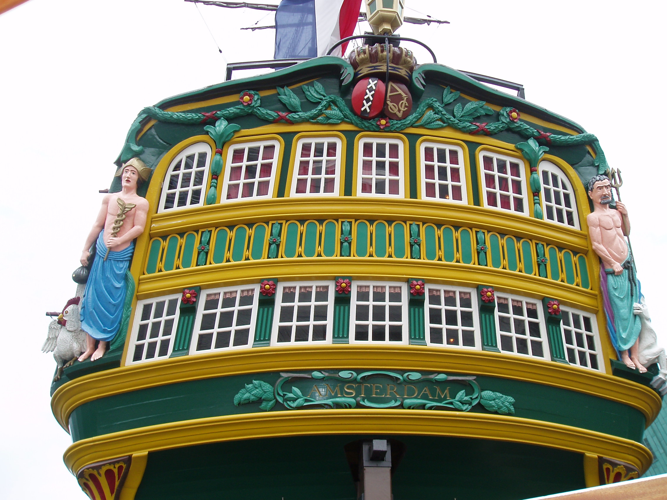 Replica of VOC ship Amsterdam in Amsterdam